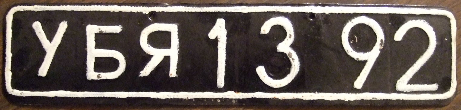 Crude handpainted plate from Ulan Bator, Mongolia